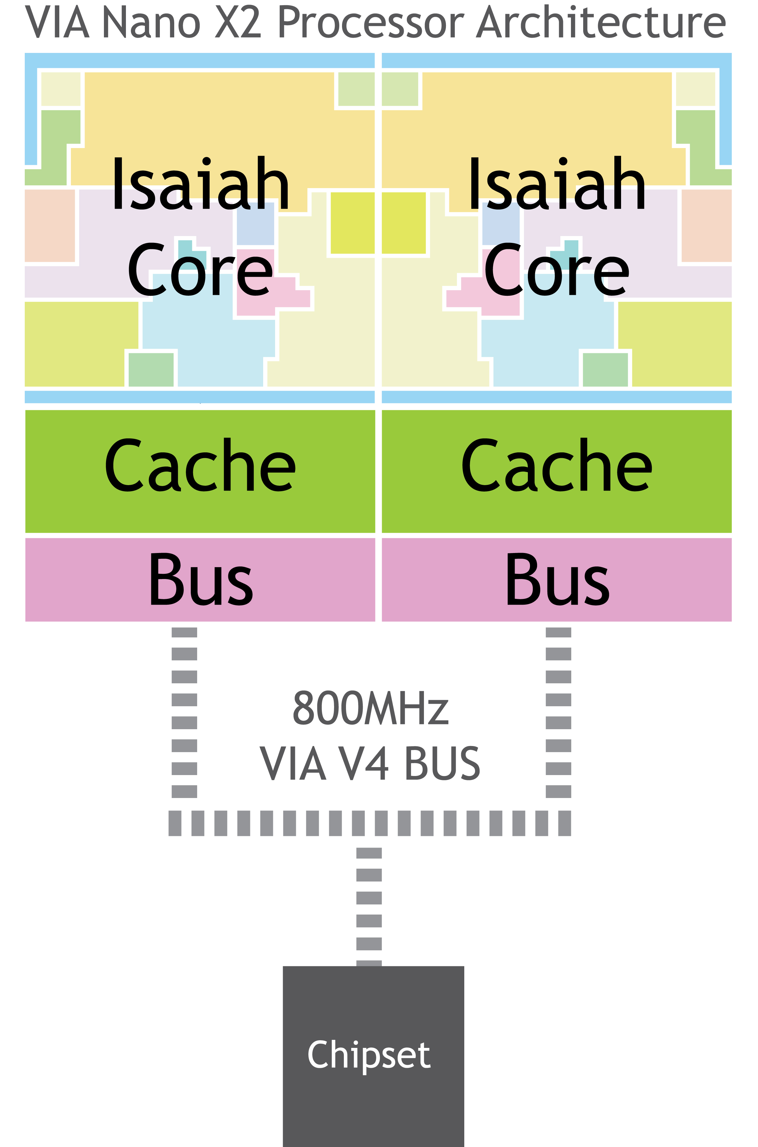 This is an diagram image describing the technical architecture of latest VIA Nano X2 processor, a high performance, low power, dual-core processor designed for a range of mainstream PC market segments.